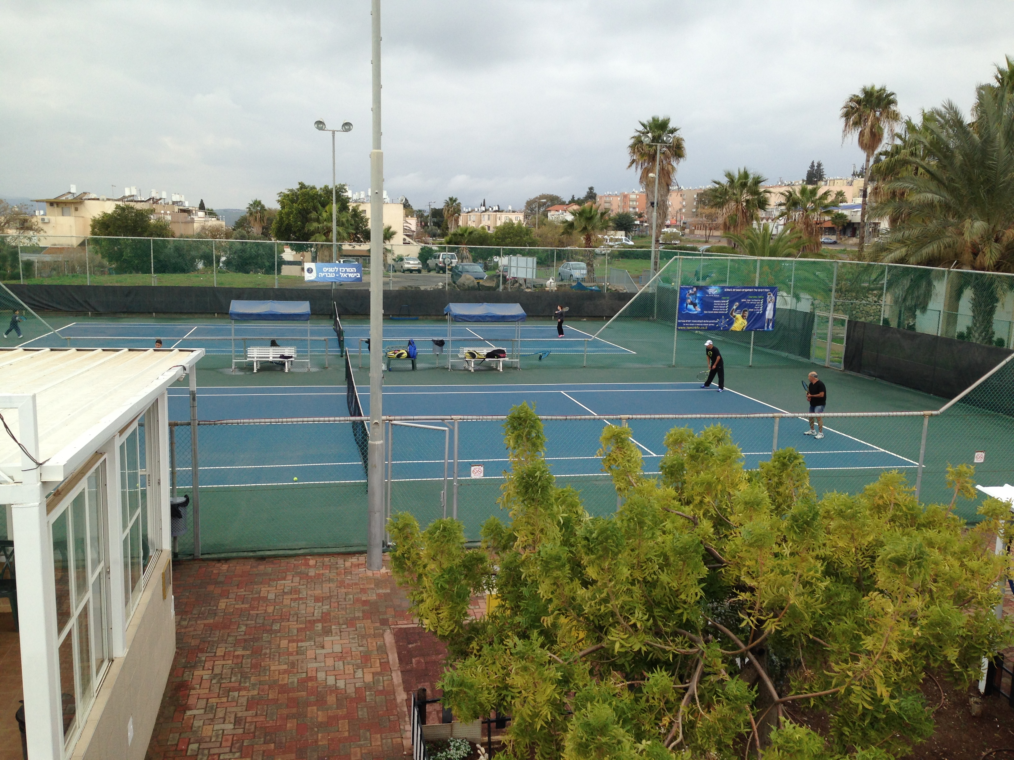 Israel Tennis Center - Tiberias